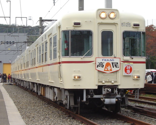 Keio series 5000 used as the engineering unit. Taken at Wakabadai deopt when the depot was open for public